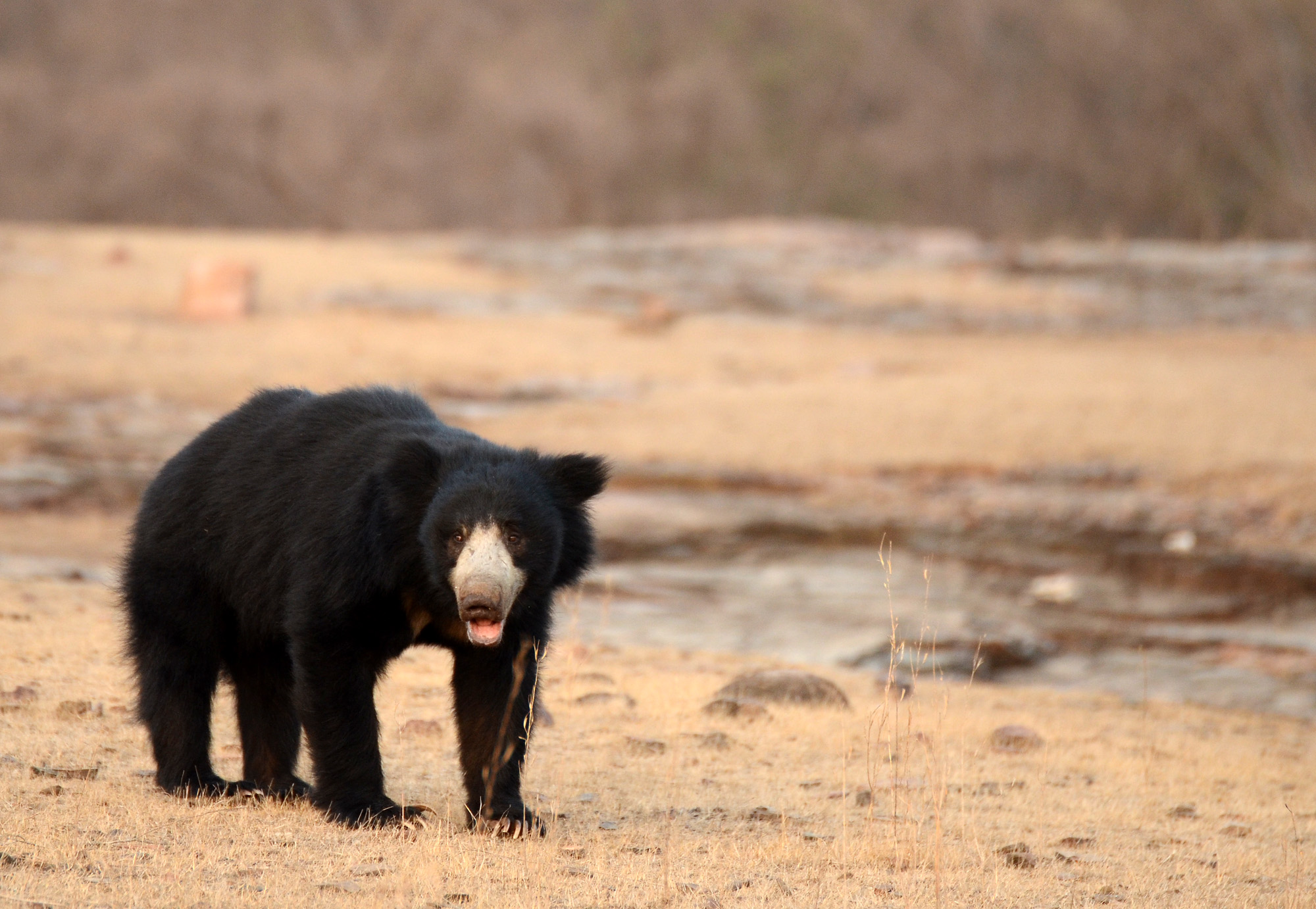 Sloth Bear in Ranthambore National Park